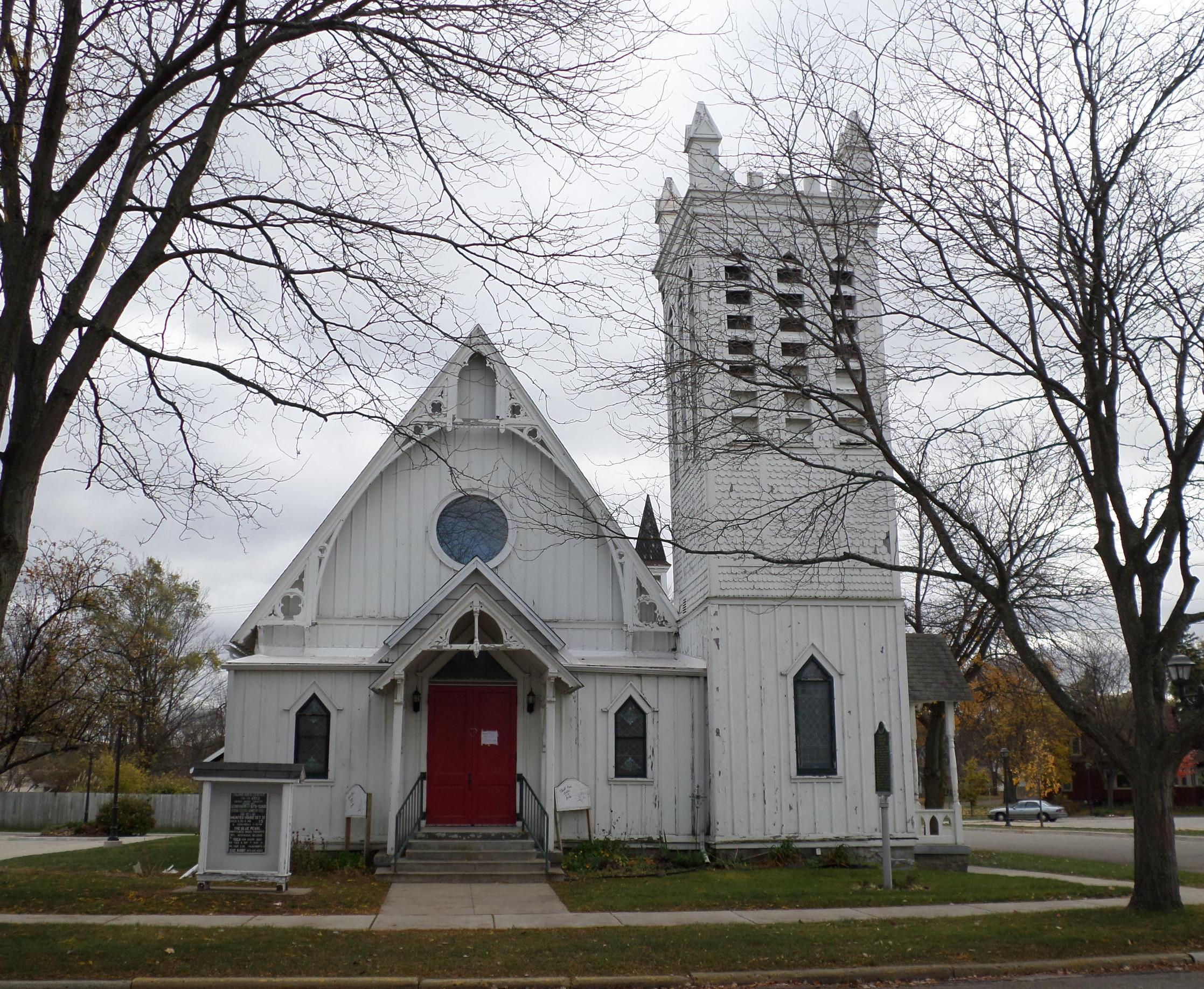 The Trinity Episcopal Church, now the Thumb Area Center for the Arts, located at 106 Joy St, Caro, MI.